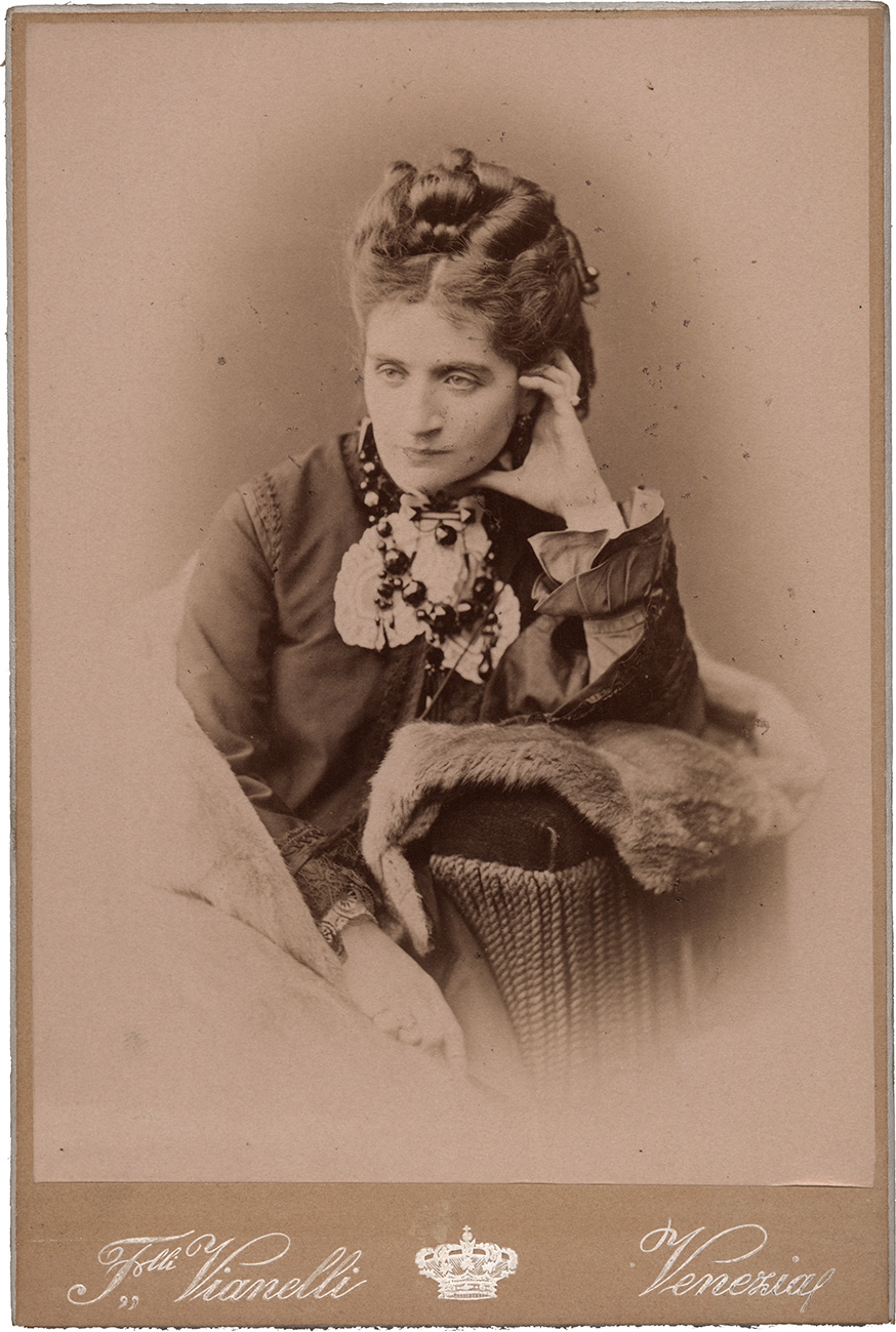 Portrait of Carolina Ferni, teacher (1839-1926). Photo by Fratelli Vianelli, Venezia, before 1926.